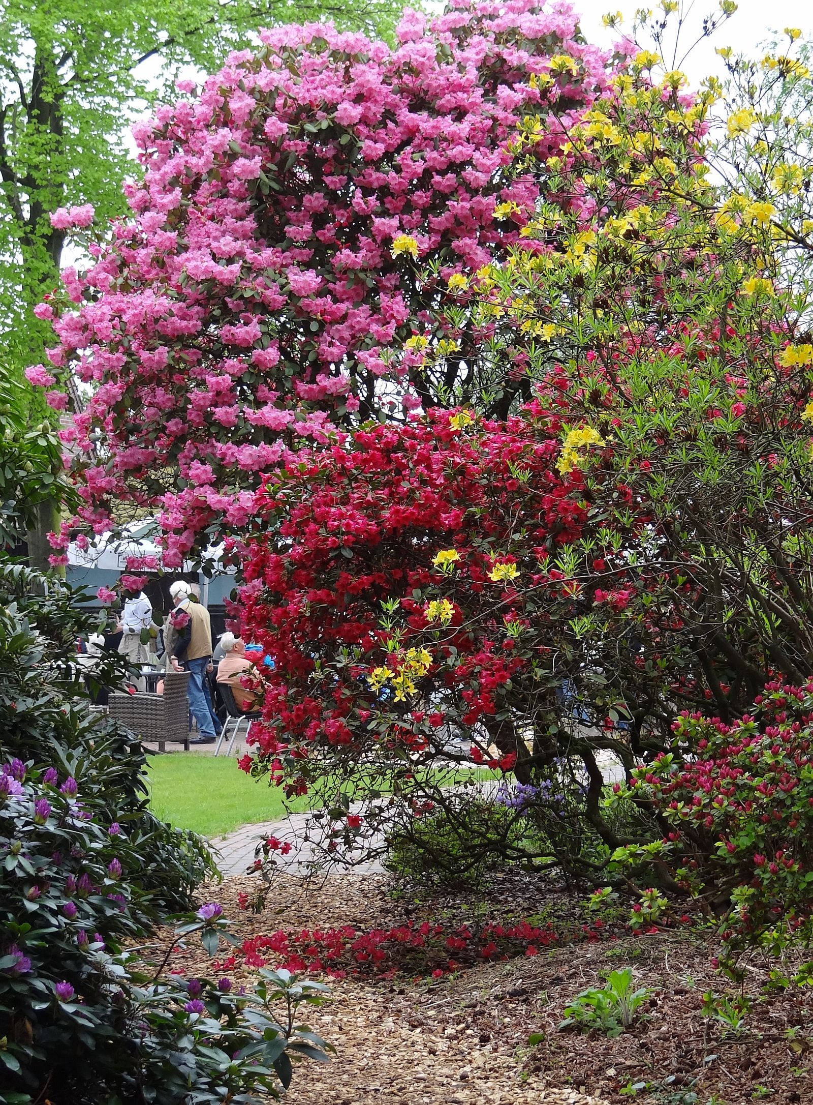 Rhododendronpark